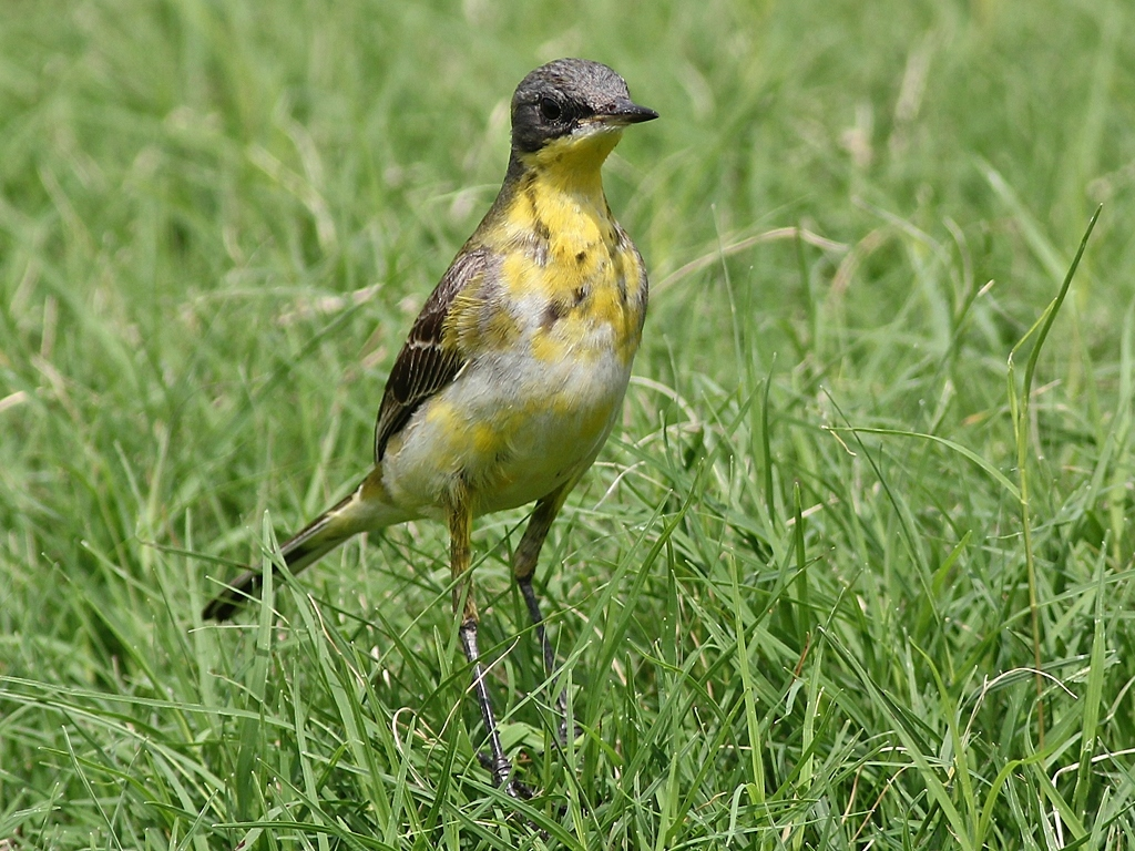 Clicked this Dark-headed Wagtail (motacilla flava thunbergii) in the garden adjoining the Ranganathittu Bird Sanctuary.